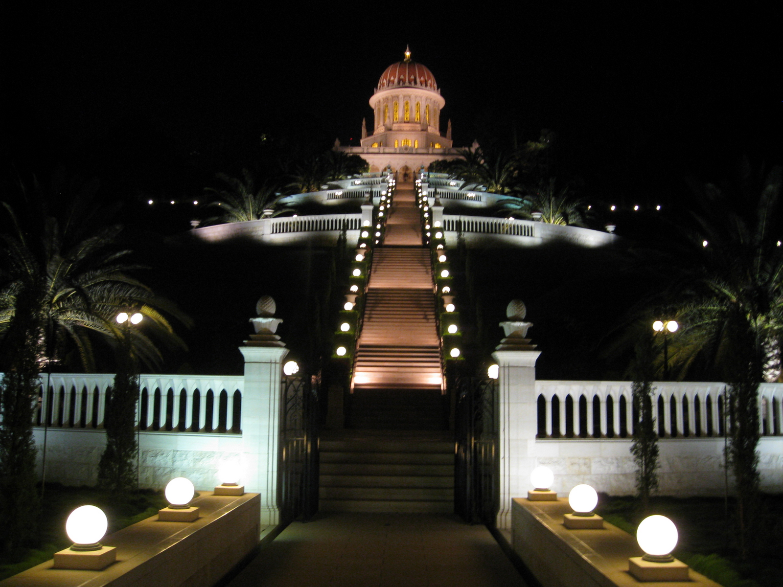 Shrine of the Báb